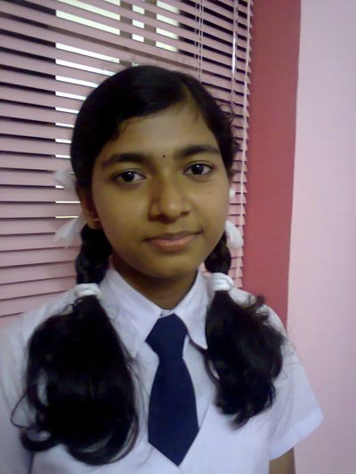 My Photograph